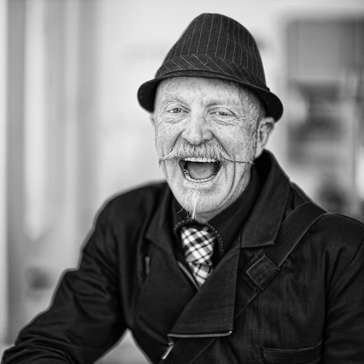 Gary Fisher, inventor of the mountain bike